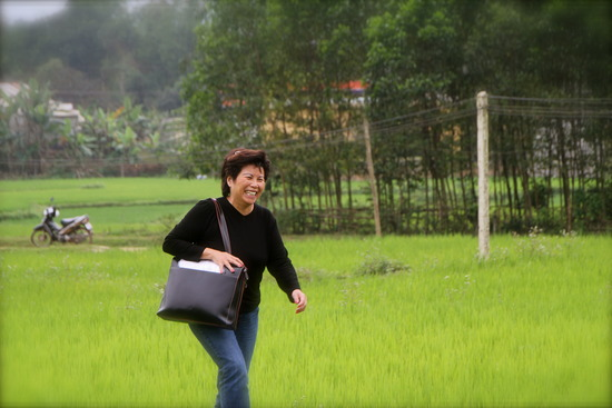 Le Ly Hayslip